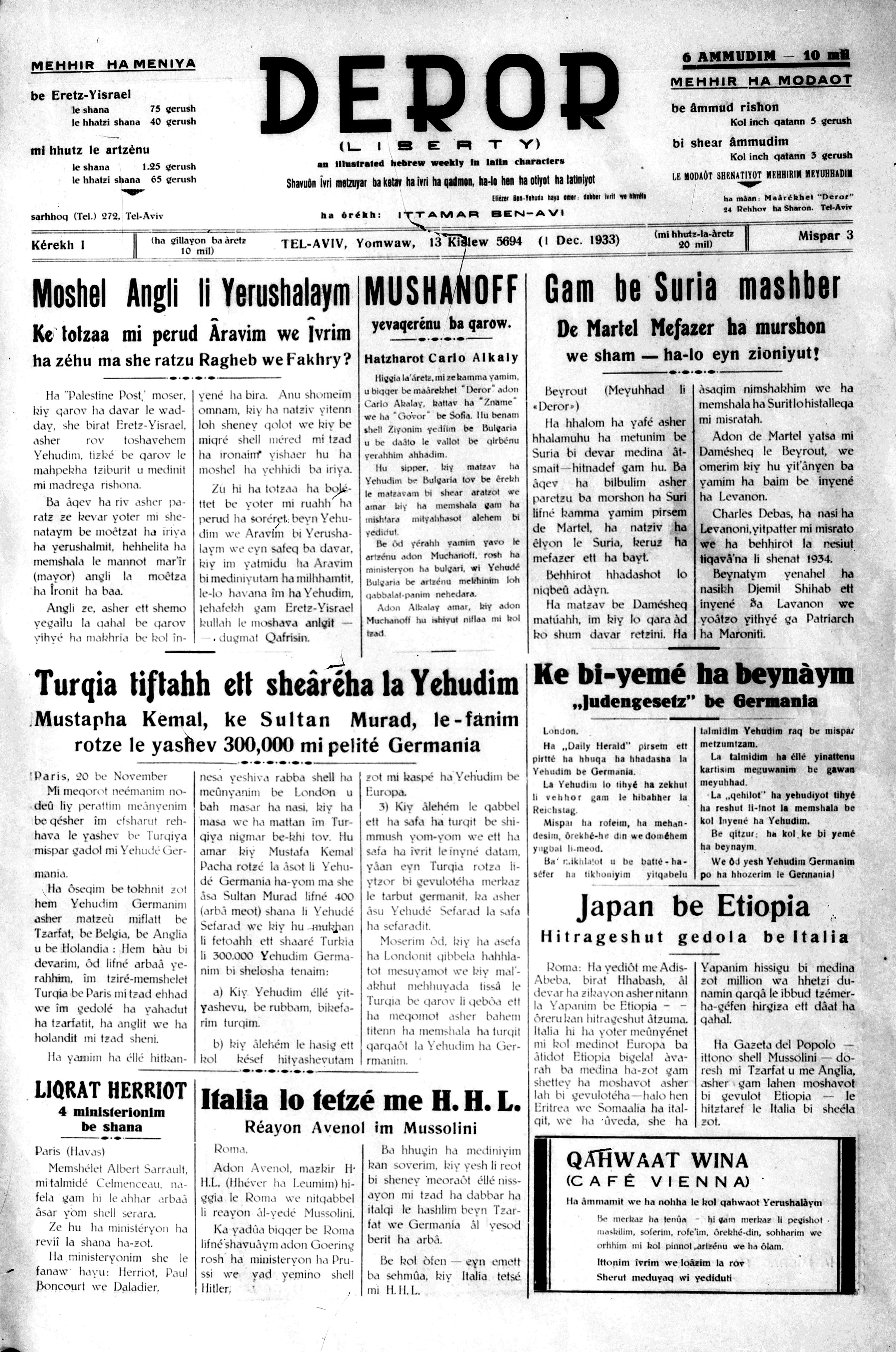 FRONT PAGE OF THE HEBREW WEEKLY DEROR PRINTED IN LATIN LETTERS. כותרות העתון העברי "דרוד" המודפס באותיות לטיניות.